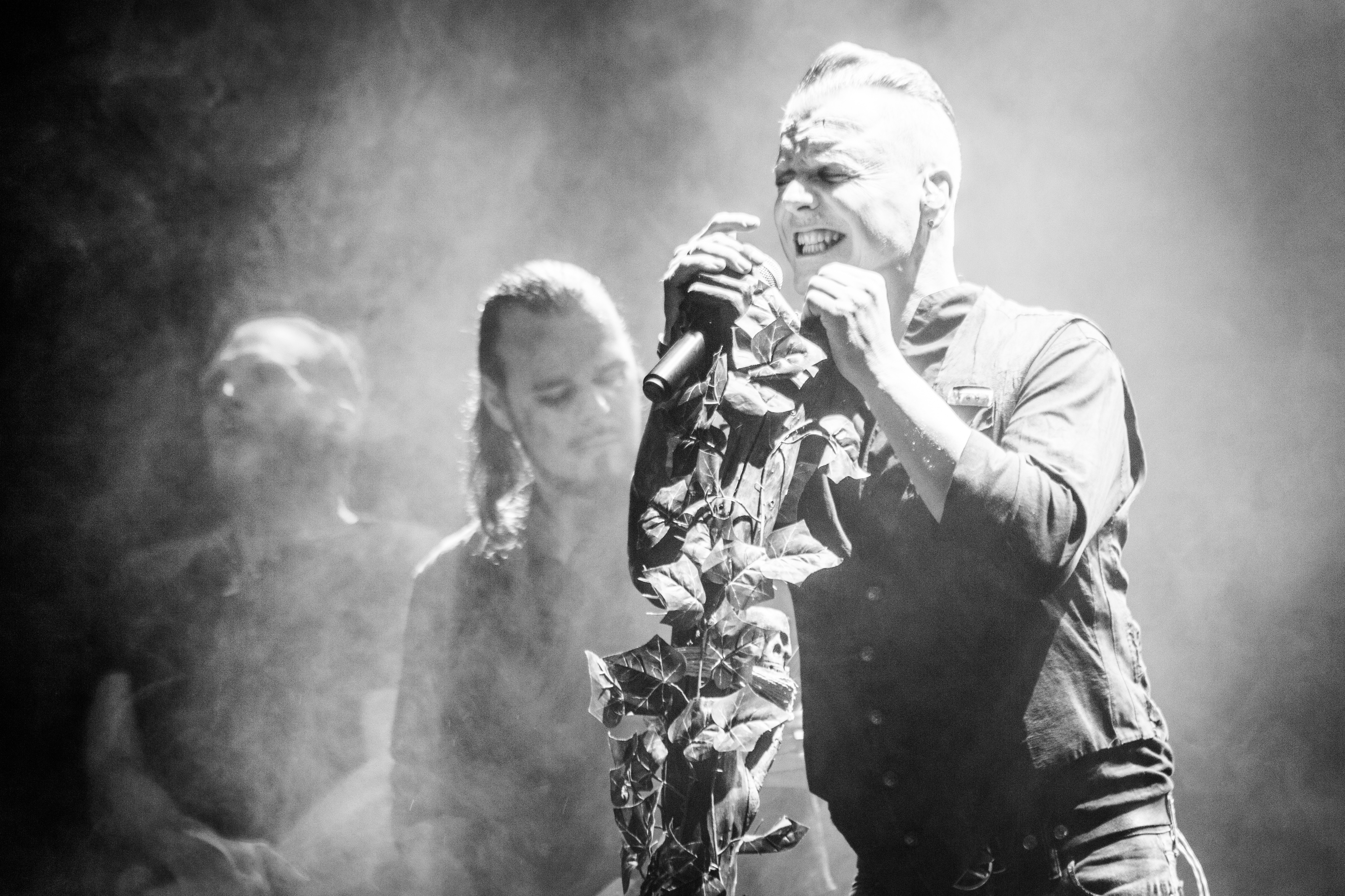 The Vision Bleak performing live at Prophecy Fest, Balve Cave, 2017